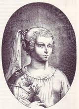 Marie de Gournay-montaigne